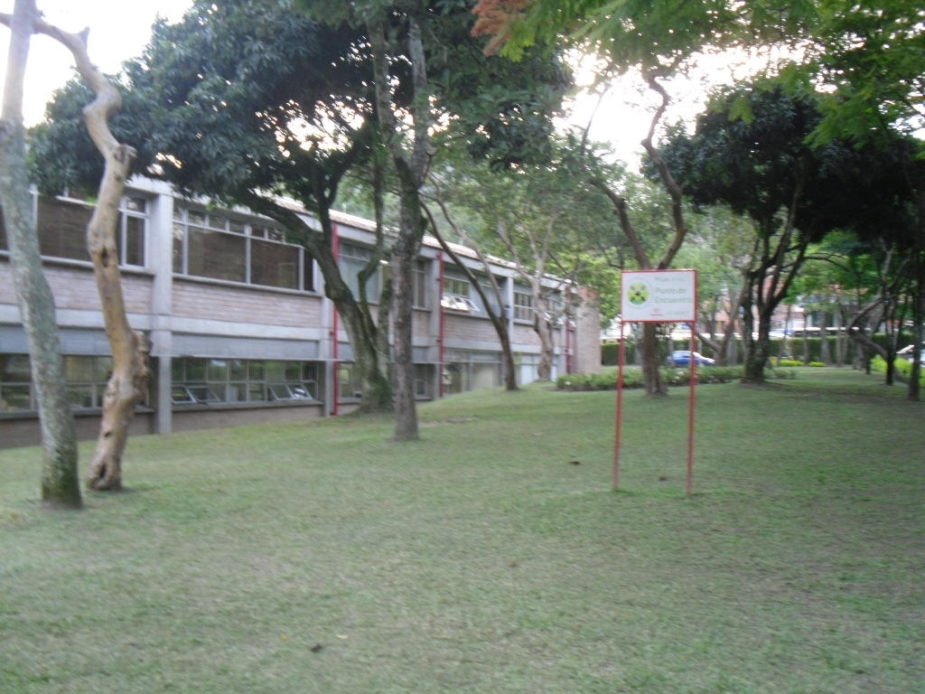 Bloque Administrativo UdeM